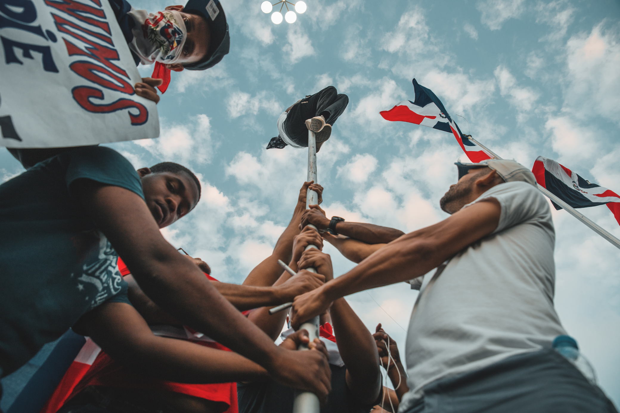 Protestantes dominicanos sostienen asta, mientras uno de ellos cuelga su propia bandera dominicana, para luego izarla a media asta.